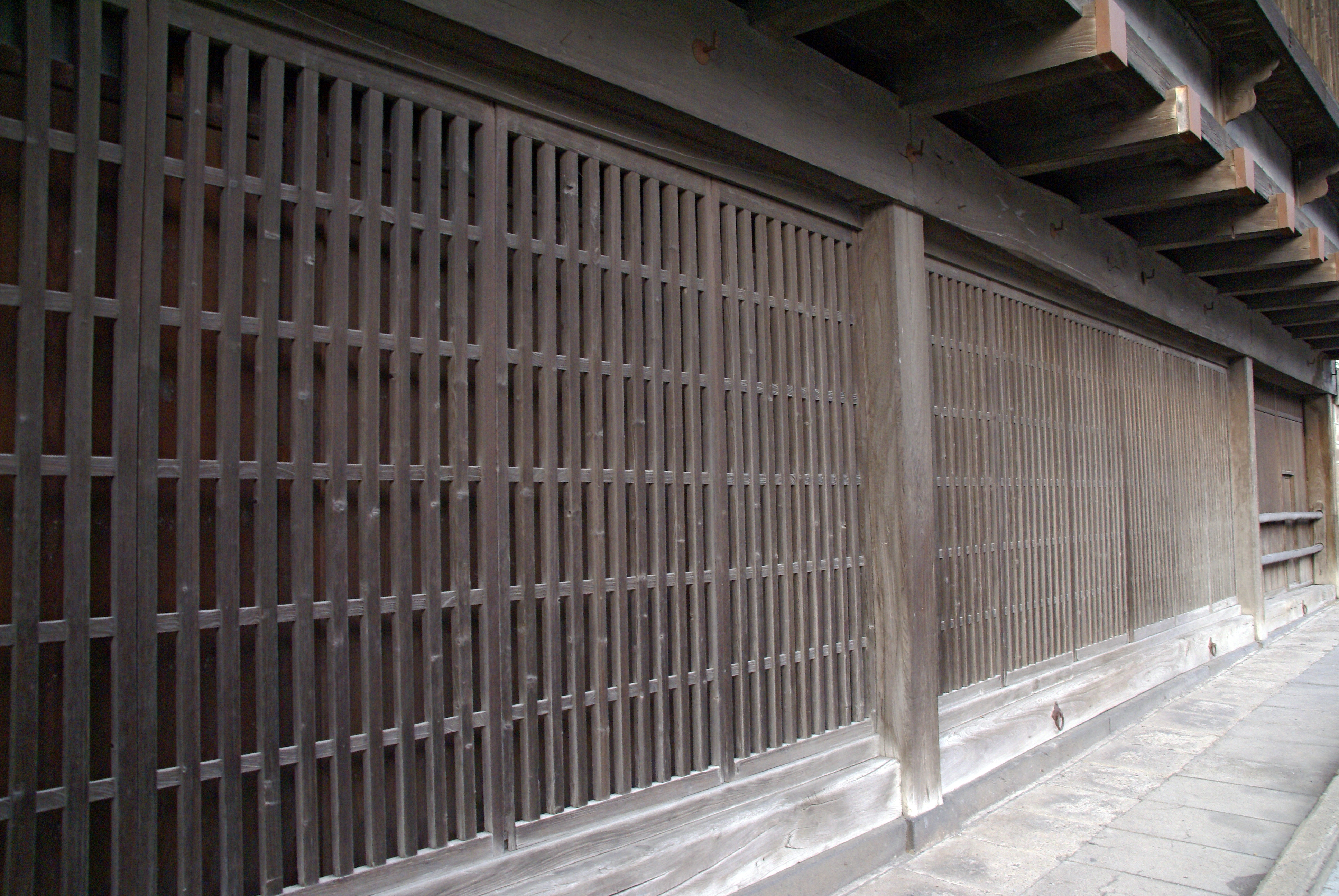 Old Komoro-honjin Toiyaba in Komoro, Nagano prefecture, Japan